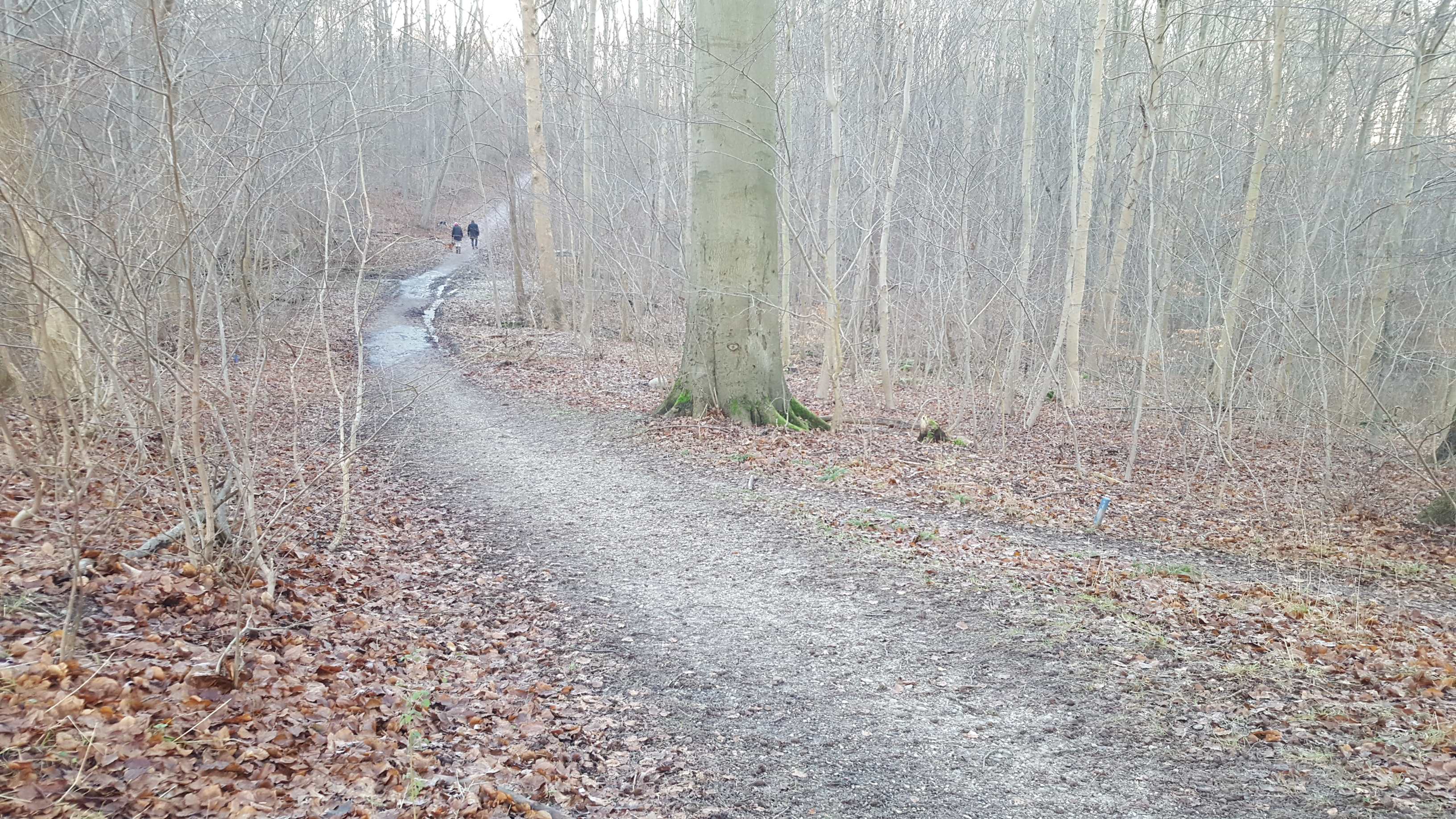 A path leading down from a parking lot at Ermelundsvej